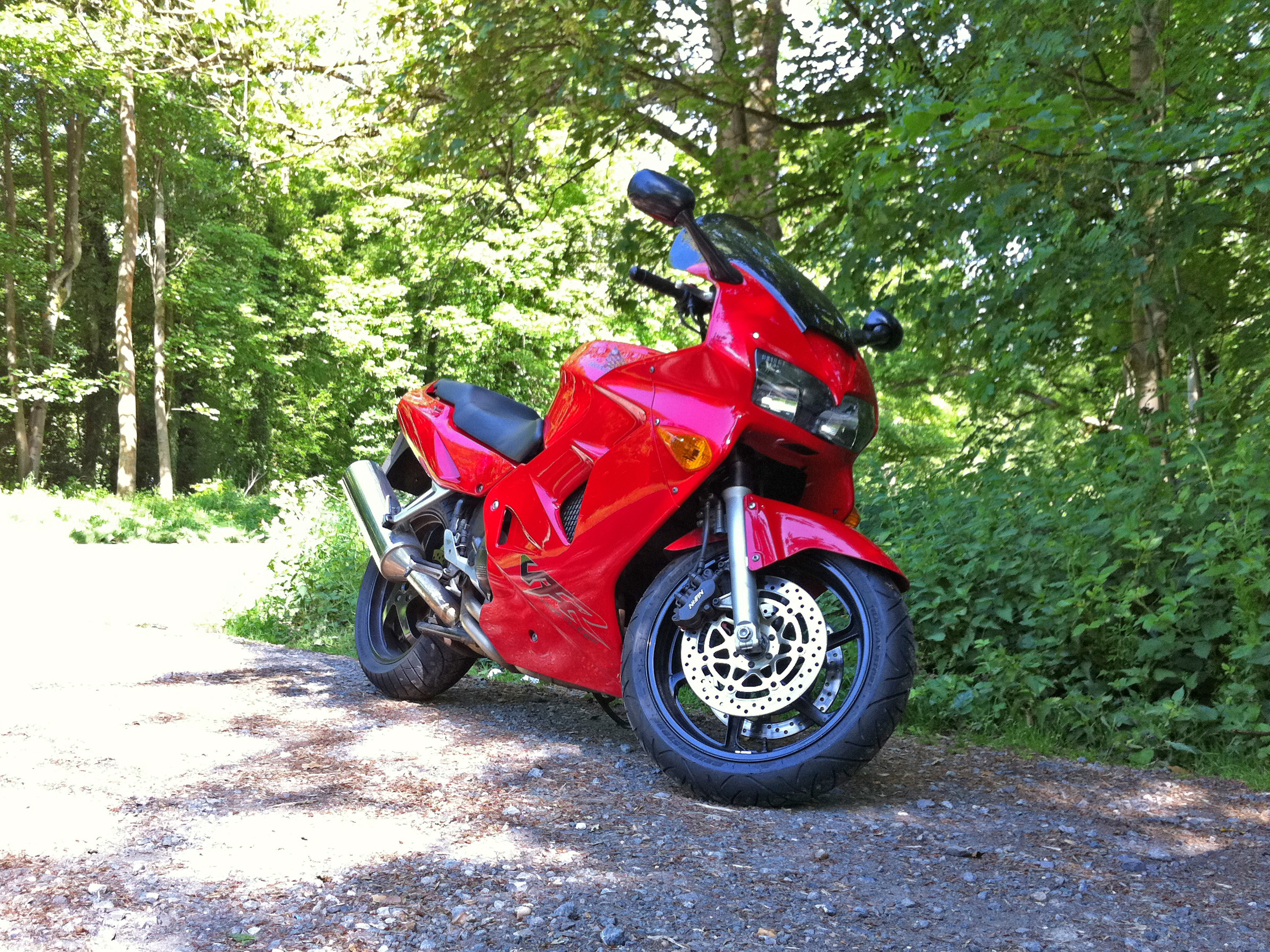 Red, 2000 VFR800Fi-Y with touring screen